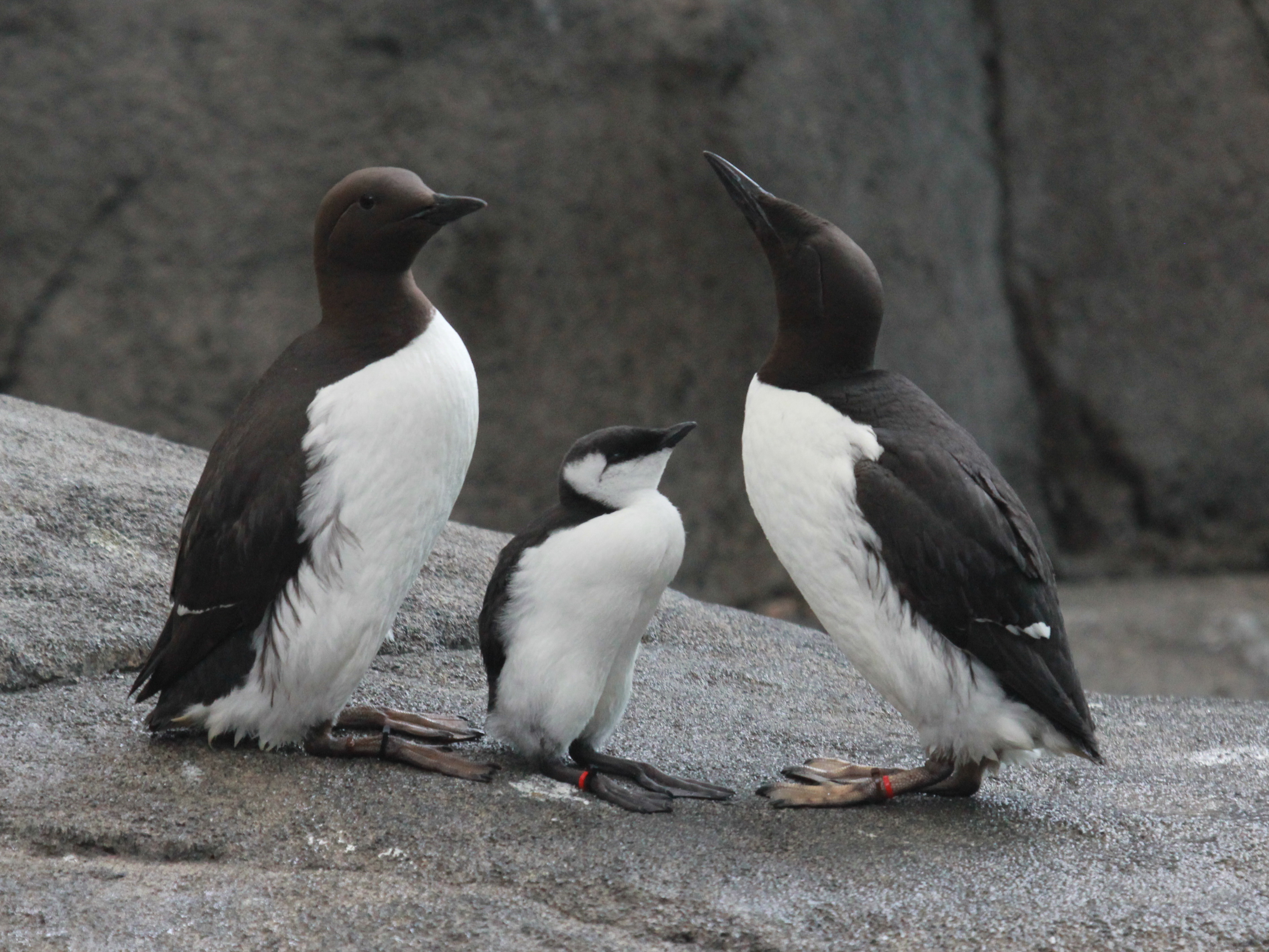 Common Murre ( Uria aalge), also known as Common Guillemot. Photographed at Alaska SeaLife Center in Seward, Alaska